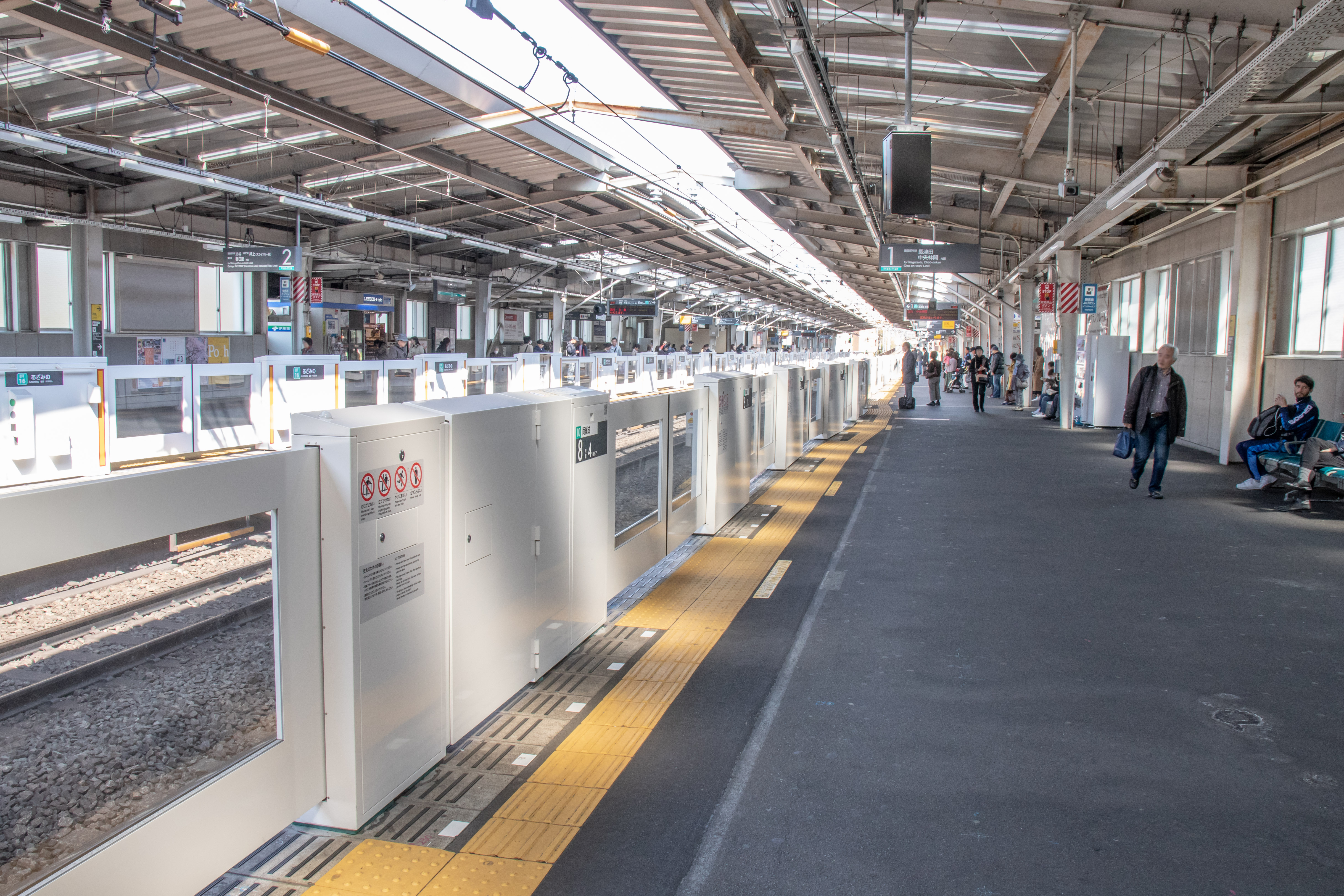 Azamino Station of the Den-en-toshi Line, Kanagawa Pref., Japan